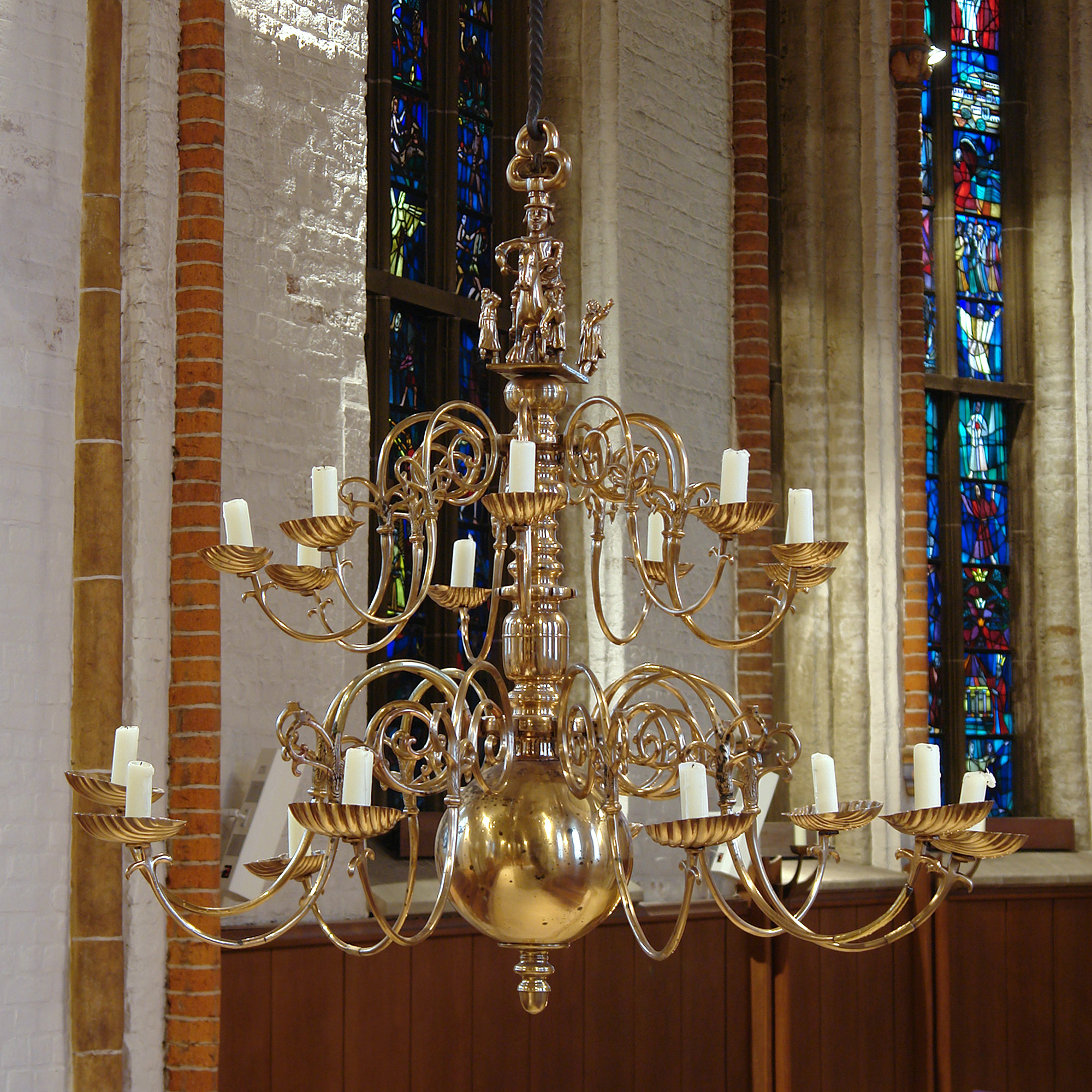 Flemish chandelier